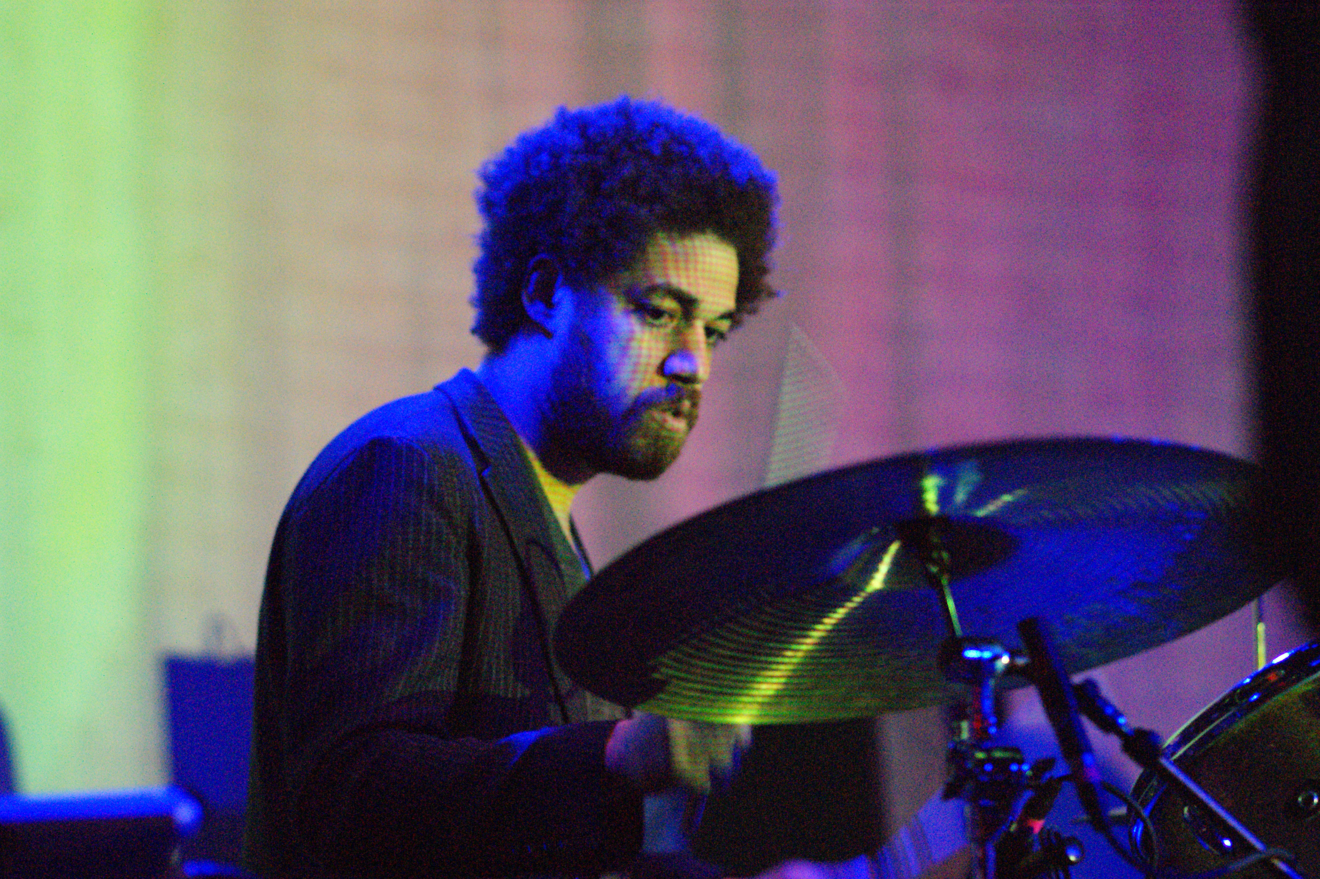 Danger Mouse (Brian Burton) playing with Broken Bells in 2010